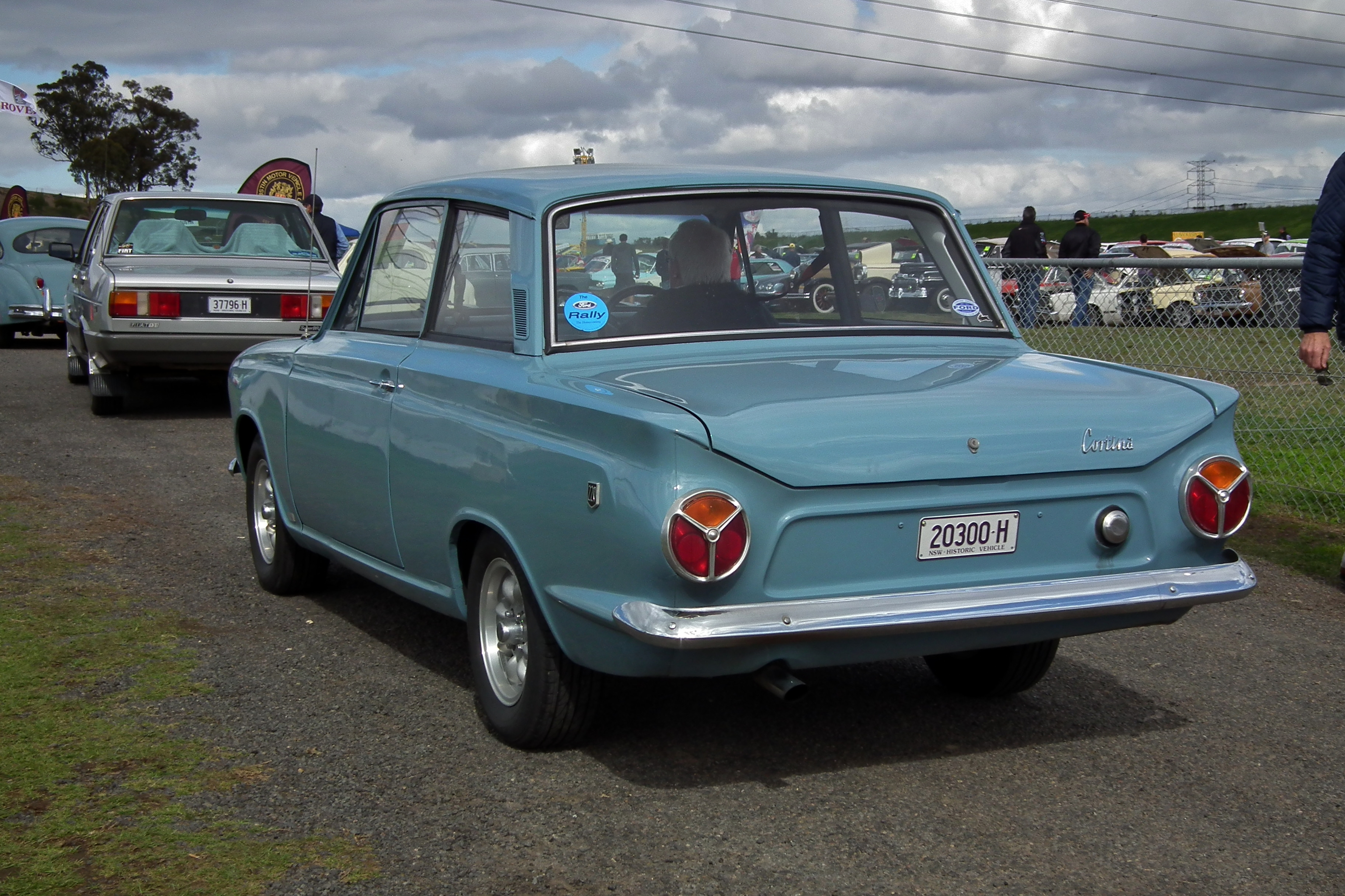 1965 Ford Cortina Mk I 220 sedan. Taken at Shannon's Eastern Creek Classic 2011, held at Eastern Creek Raceway Sydney.